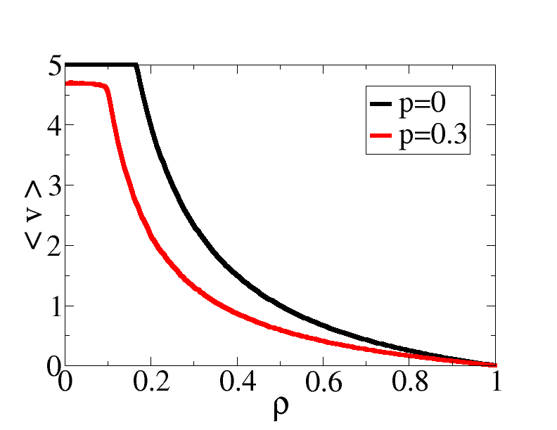 Plot from two simulation runs of the average velocity of the cars on the road, , as a function of rho the fraction of cells occupied by cars. The maximum velocity is 5 and the black curve is for p=0 (deterministic) while the red curve is for p=0.3